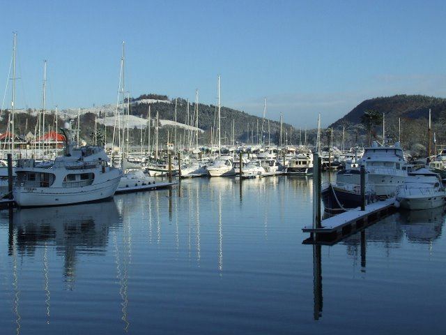 Kip Marina Looking into the marina from the breakwater on the south side of Kip Water. Bargane Hill is to the left, Idzholm Hill to the right.